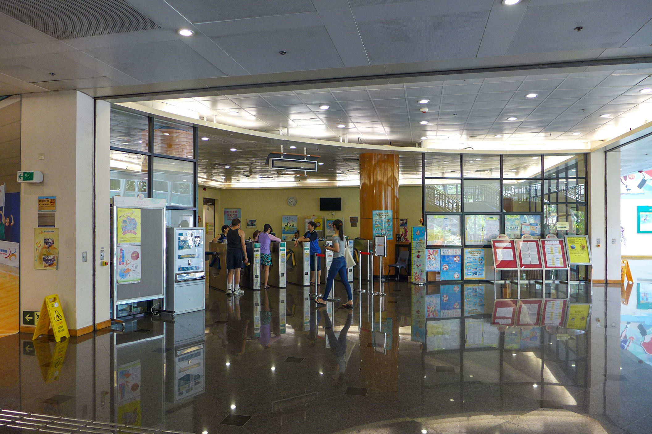 Ho Man Tin Swimming Pool Entrance